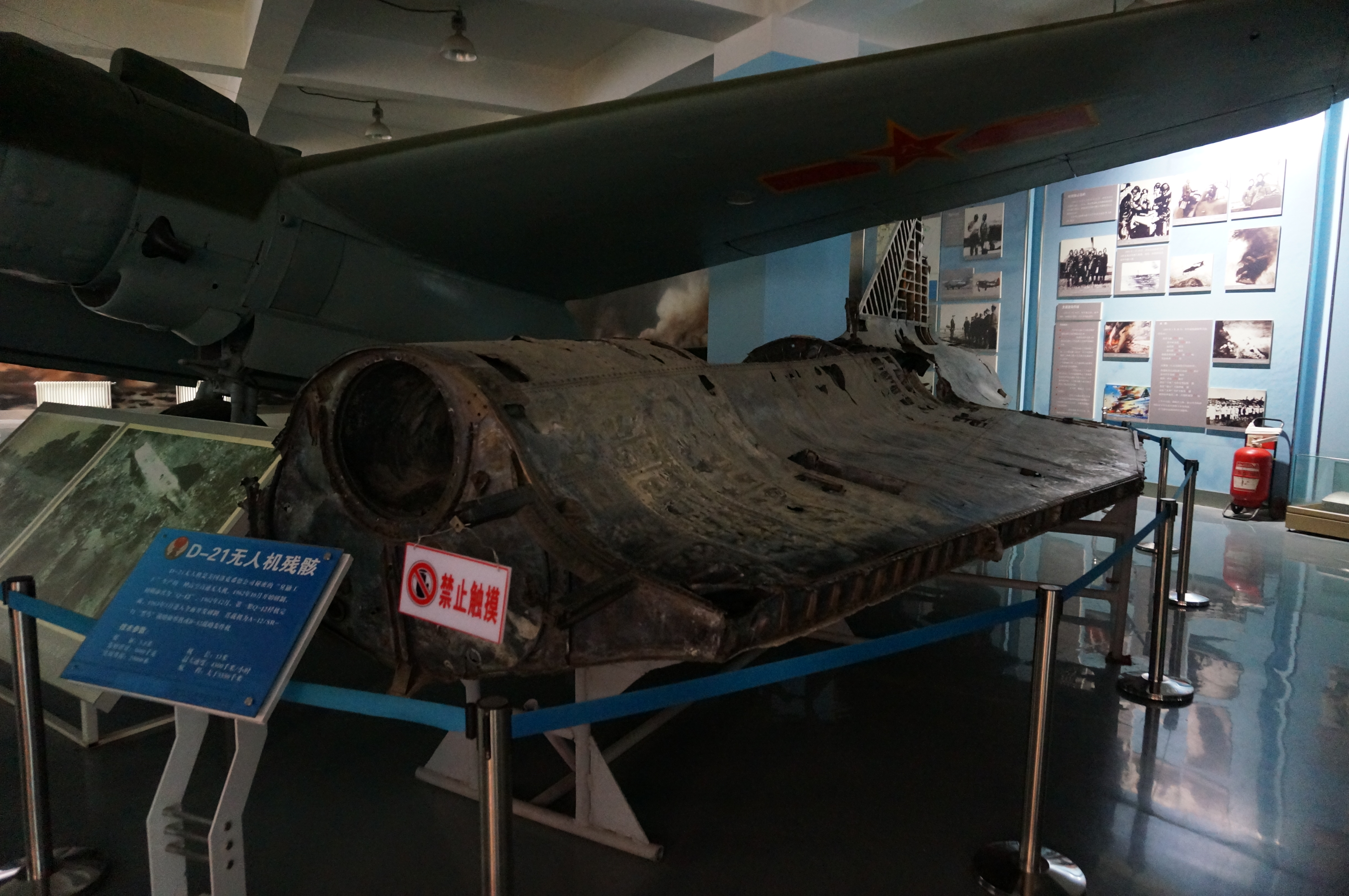 Lockheed D-21 Wreck in China Aviation Museum